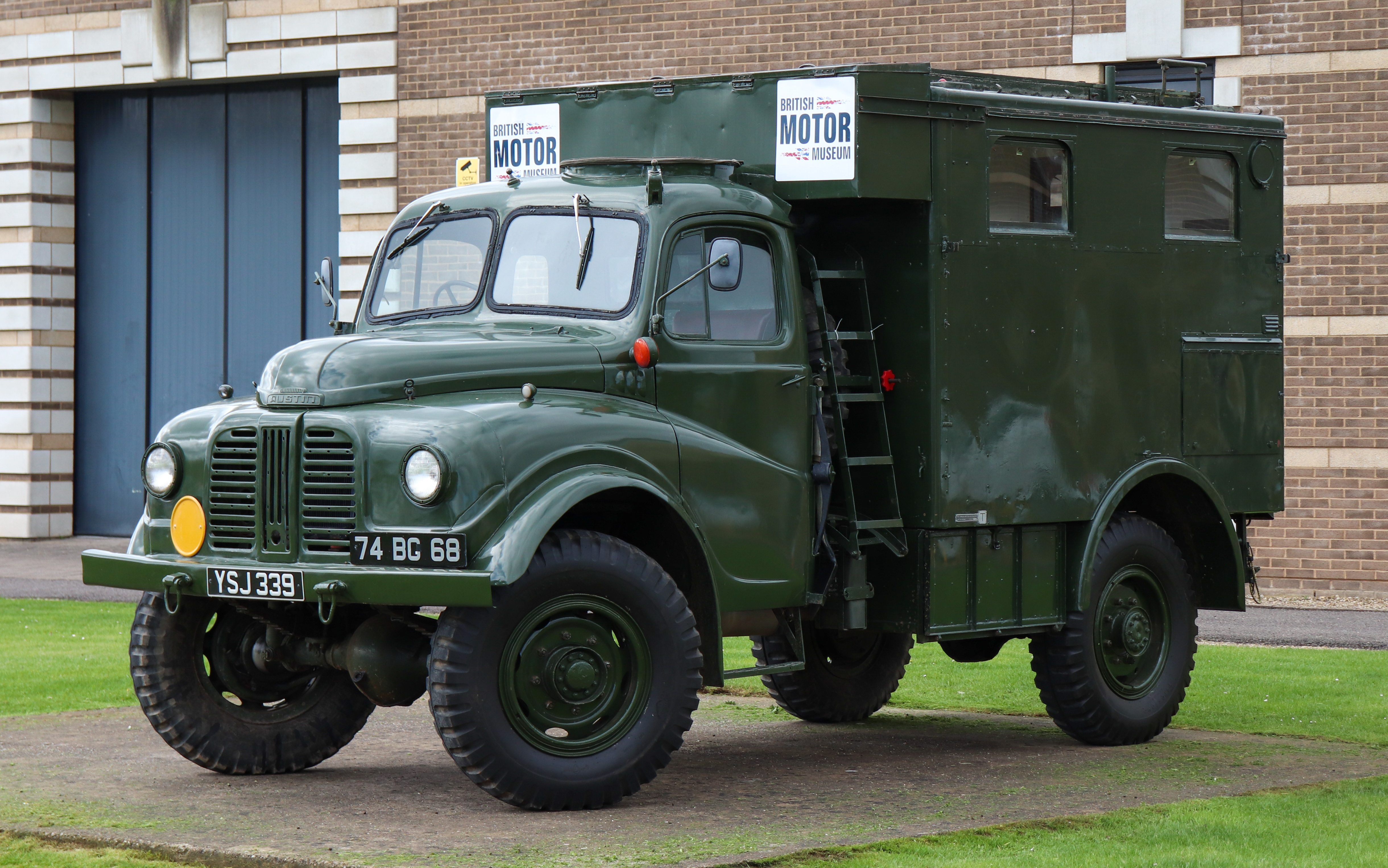 1953 Austin K9 Radio Truck 4.0 Taken at the British Motor Museum, Gaydon